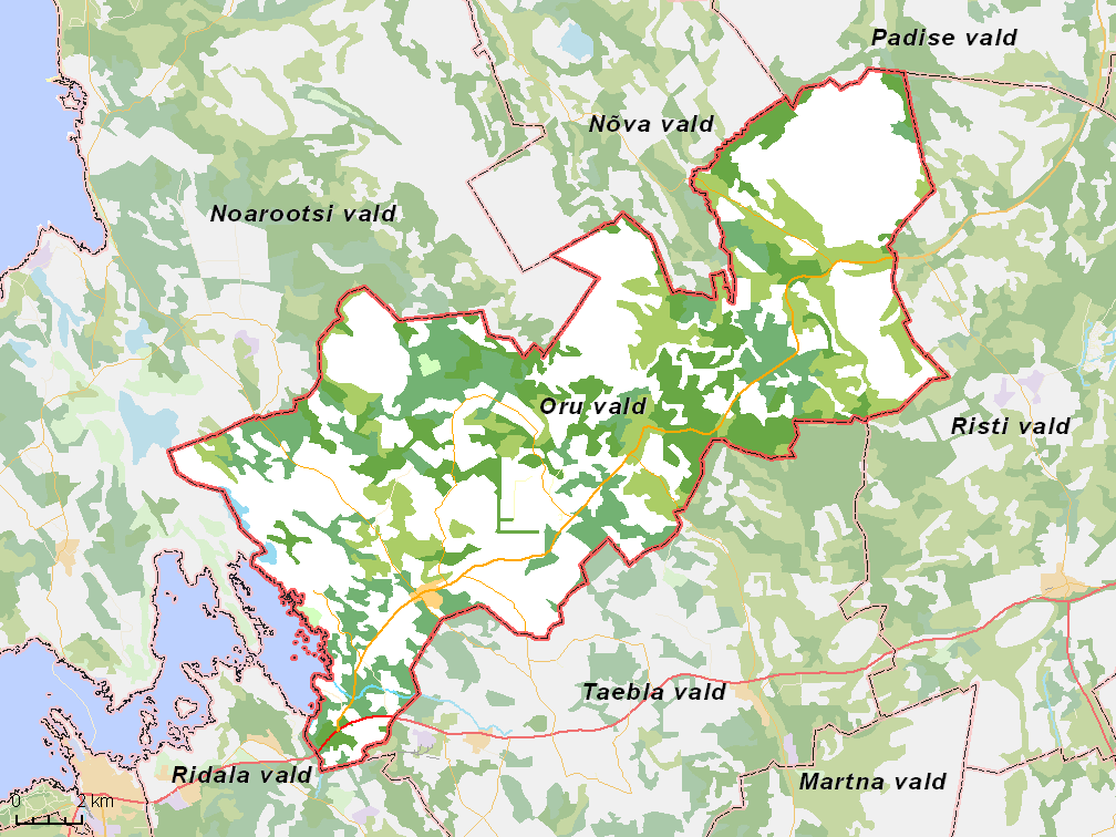 Map of municipality in Estonia